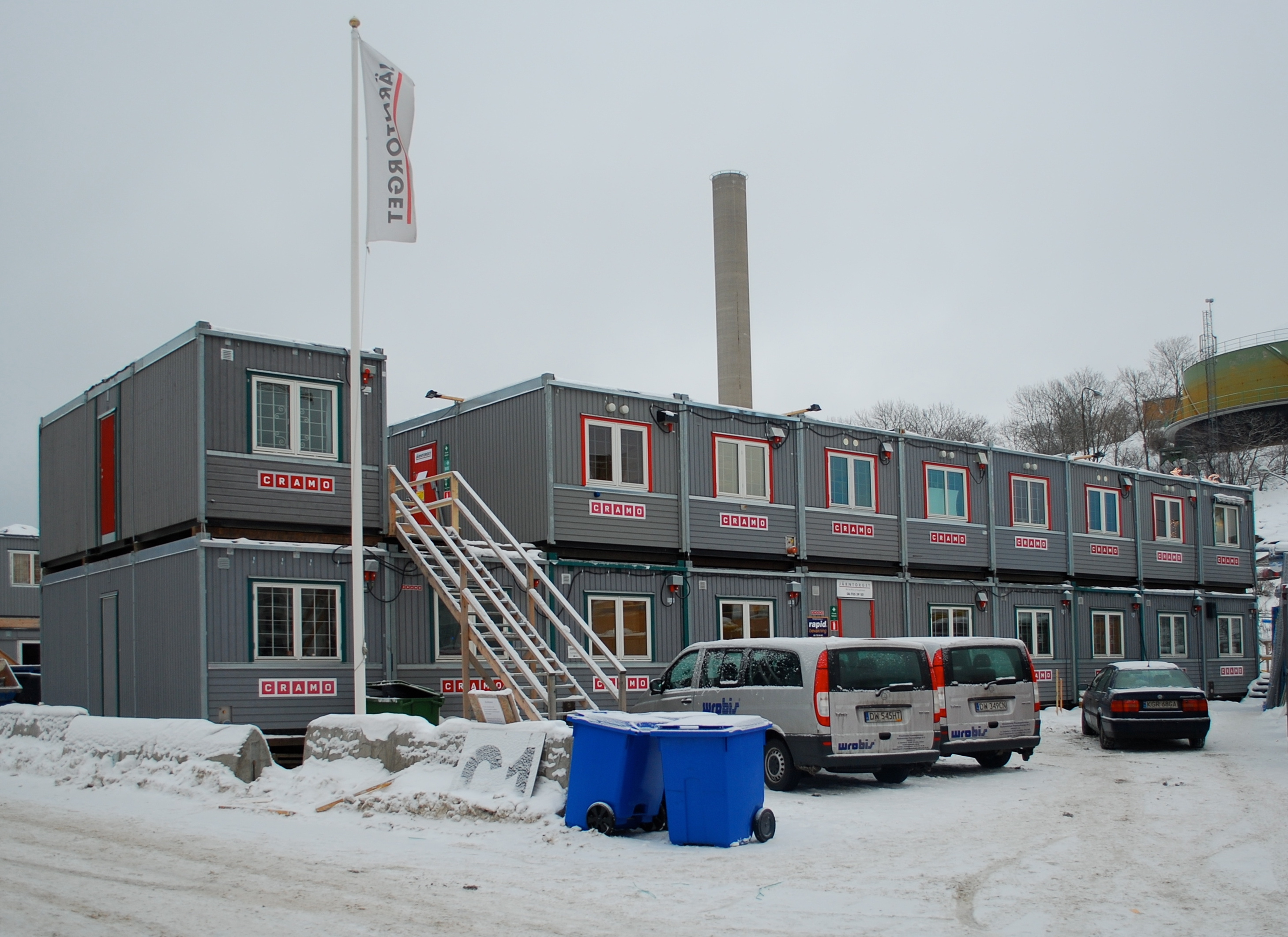 Portable building from Cramo.